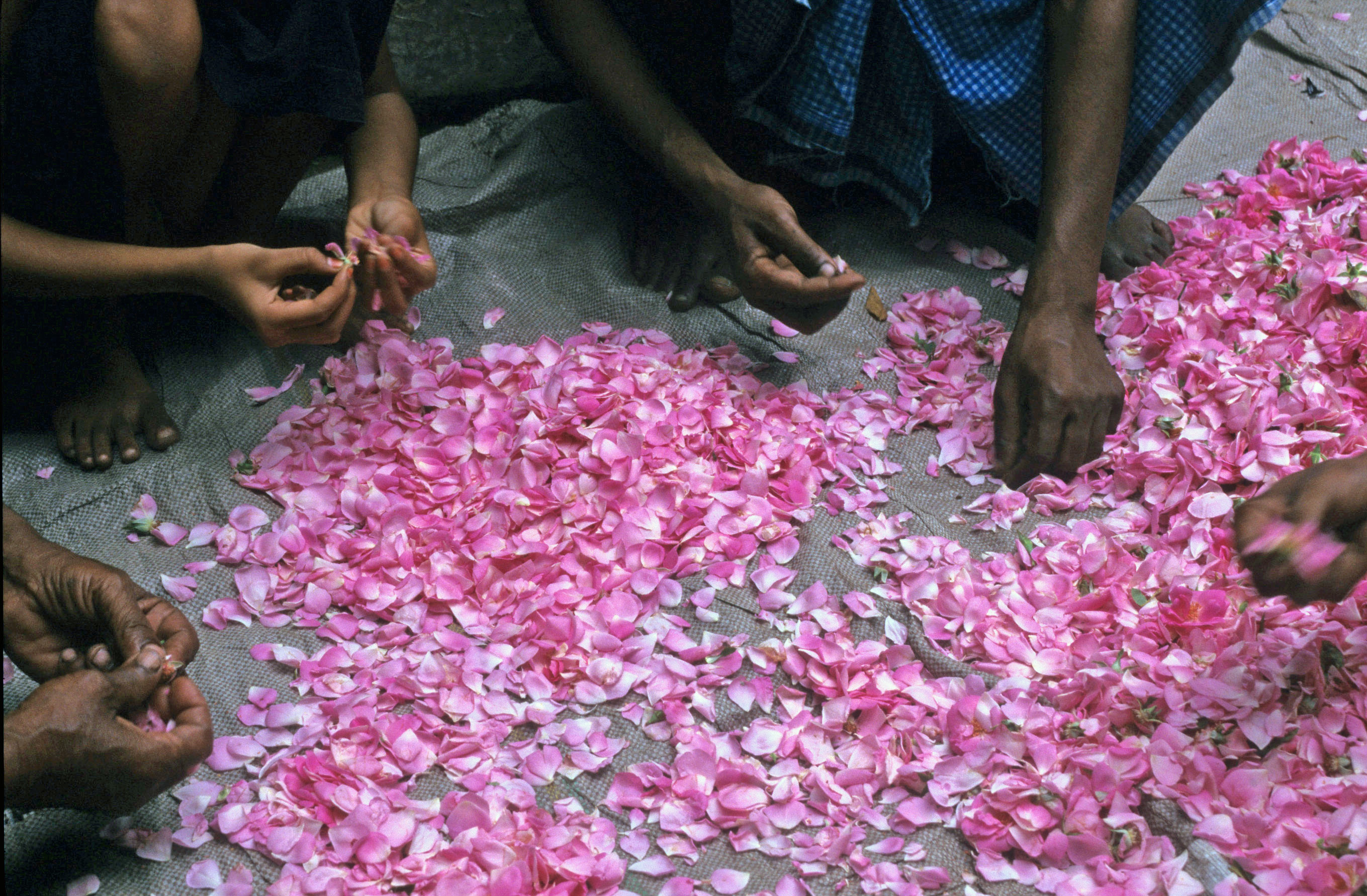 Picture tells what 1000 words cant. This is my creation.